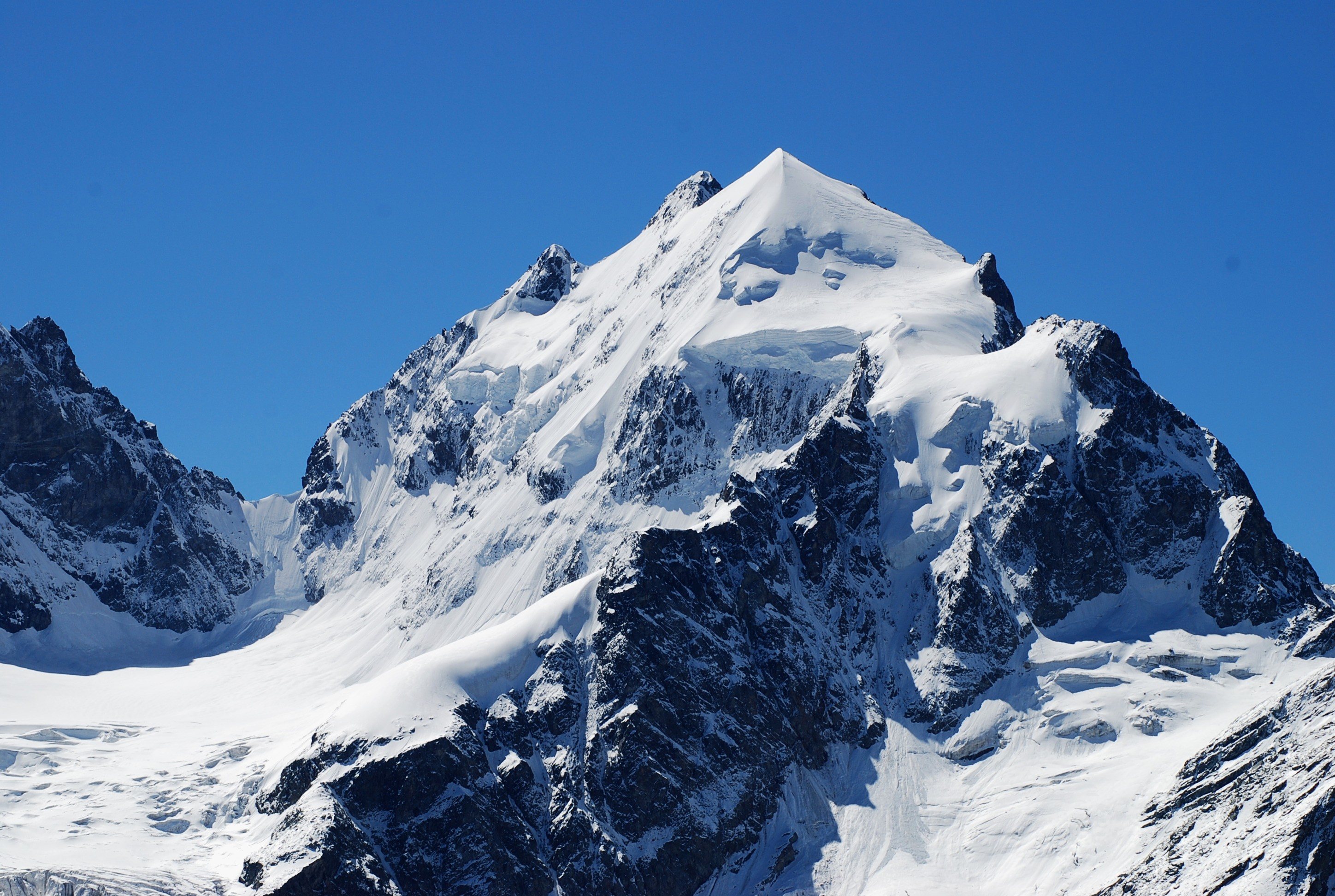 Piz Roseg, Engadin